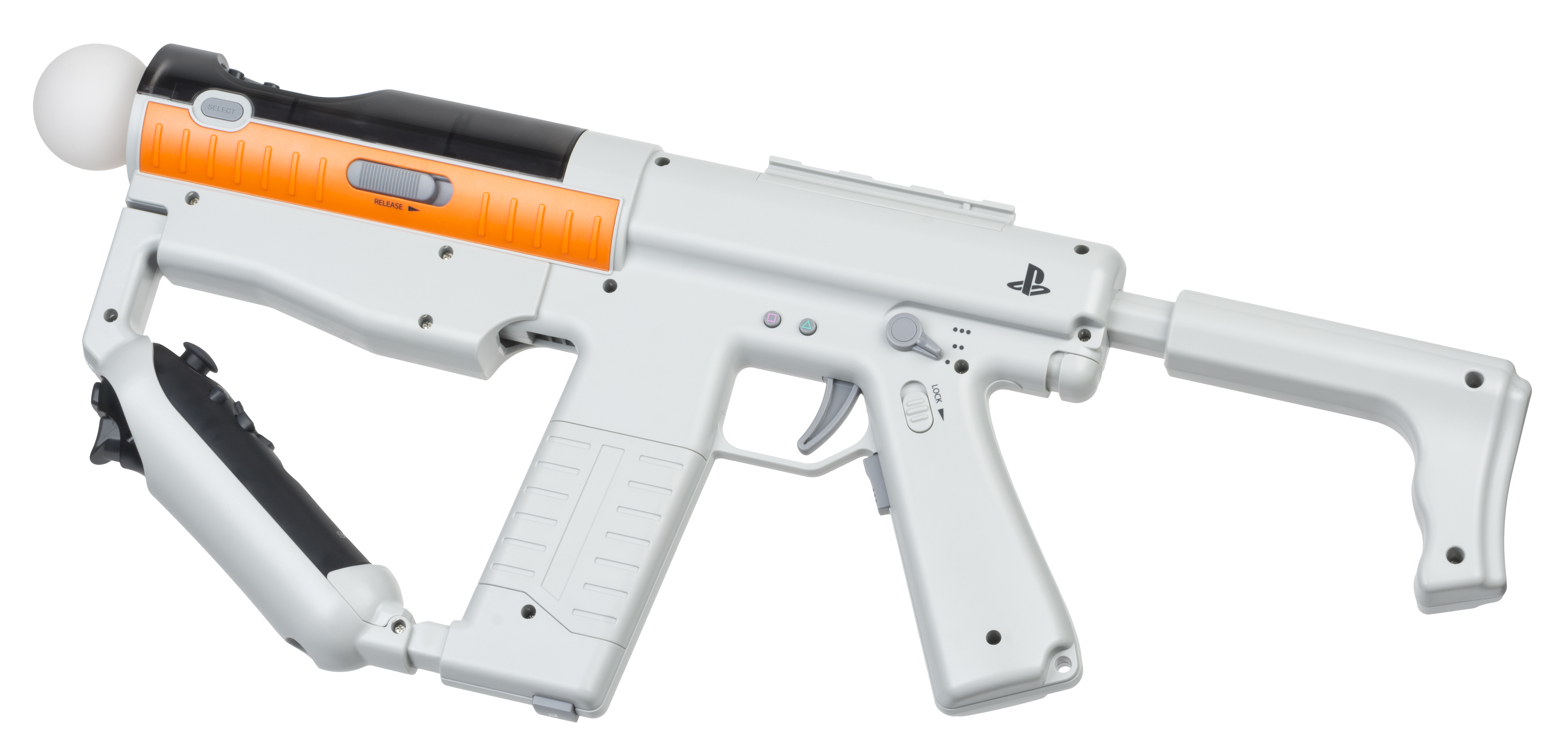 The PS Move Sharp Shooter for the Sony PlayStation 3 video game console. This is a controller holder shaped like an assault rifle that slots in a PS Move controller and Navigation controller.